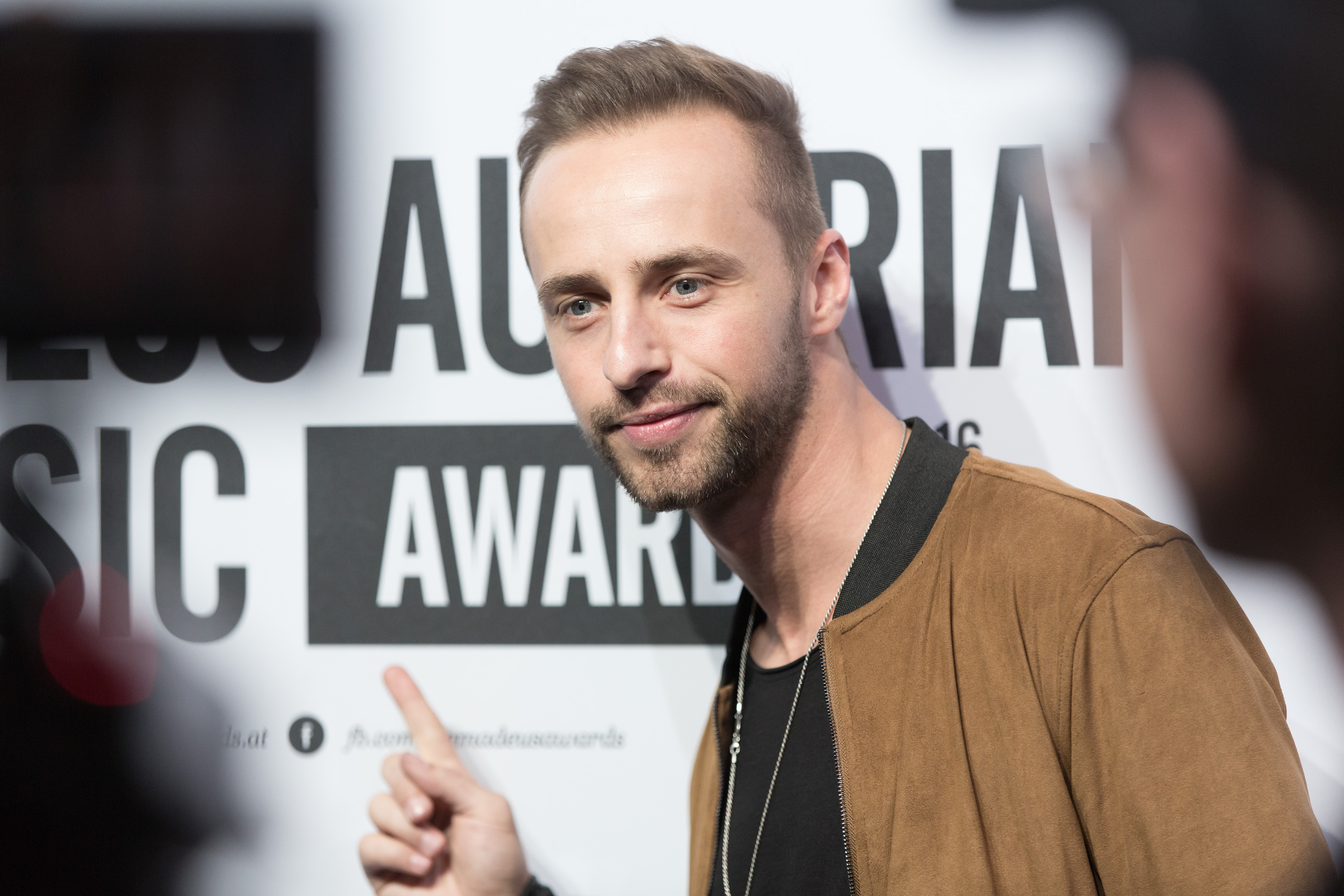 Rene Rodrigezz at the Amadeus Austrian Music Award 2015 at Volkstheater in Vienna